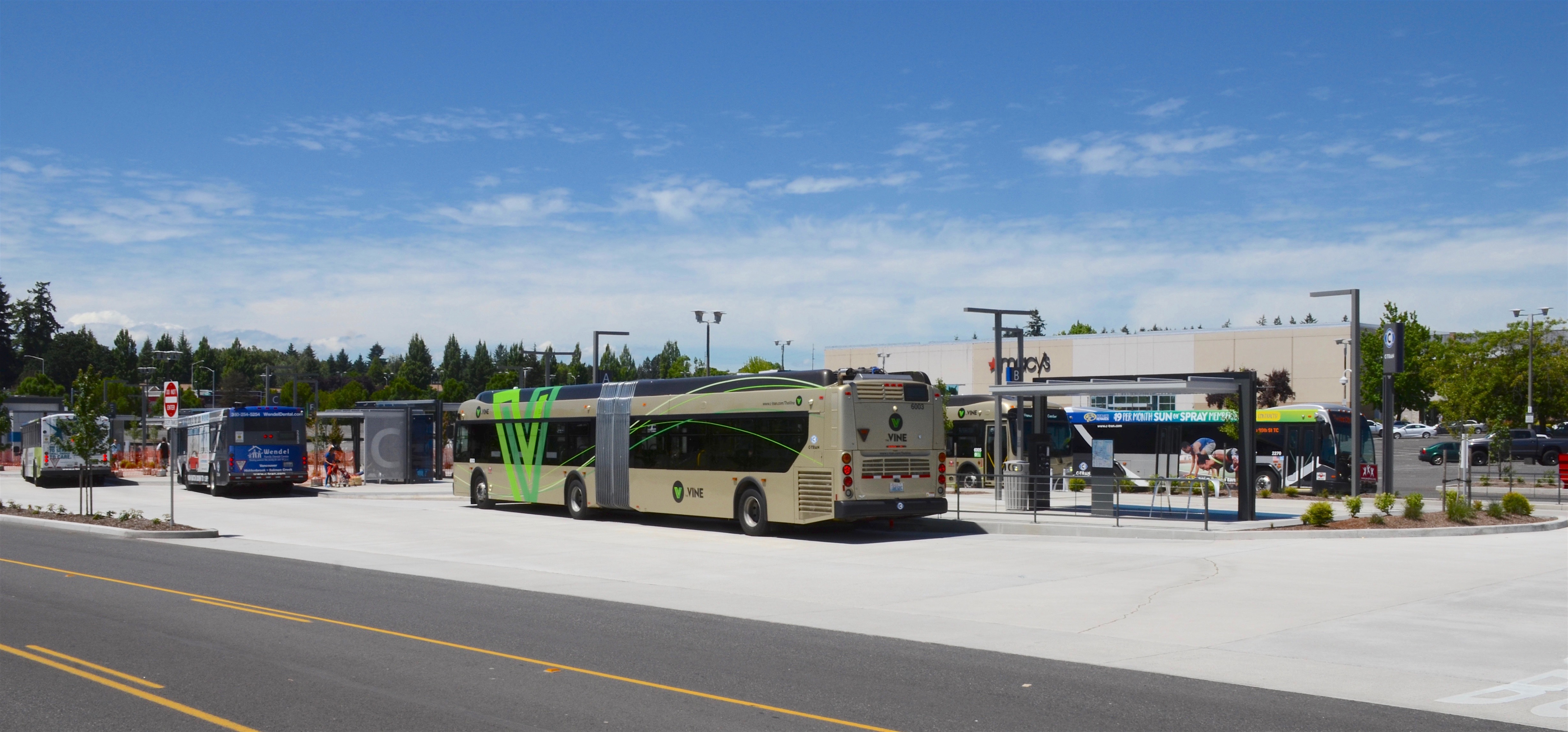 C-Tran's Vancouver Mall Transit Center, at its second location (on the mall's south side), viewed from the southeast. Several buses are laying over (and one, at far right, is departing), including two articulated buses on "The Vine" service.